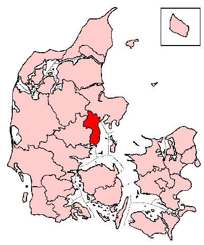 Map of Aarhus County 1793-1970